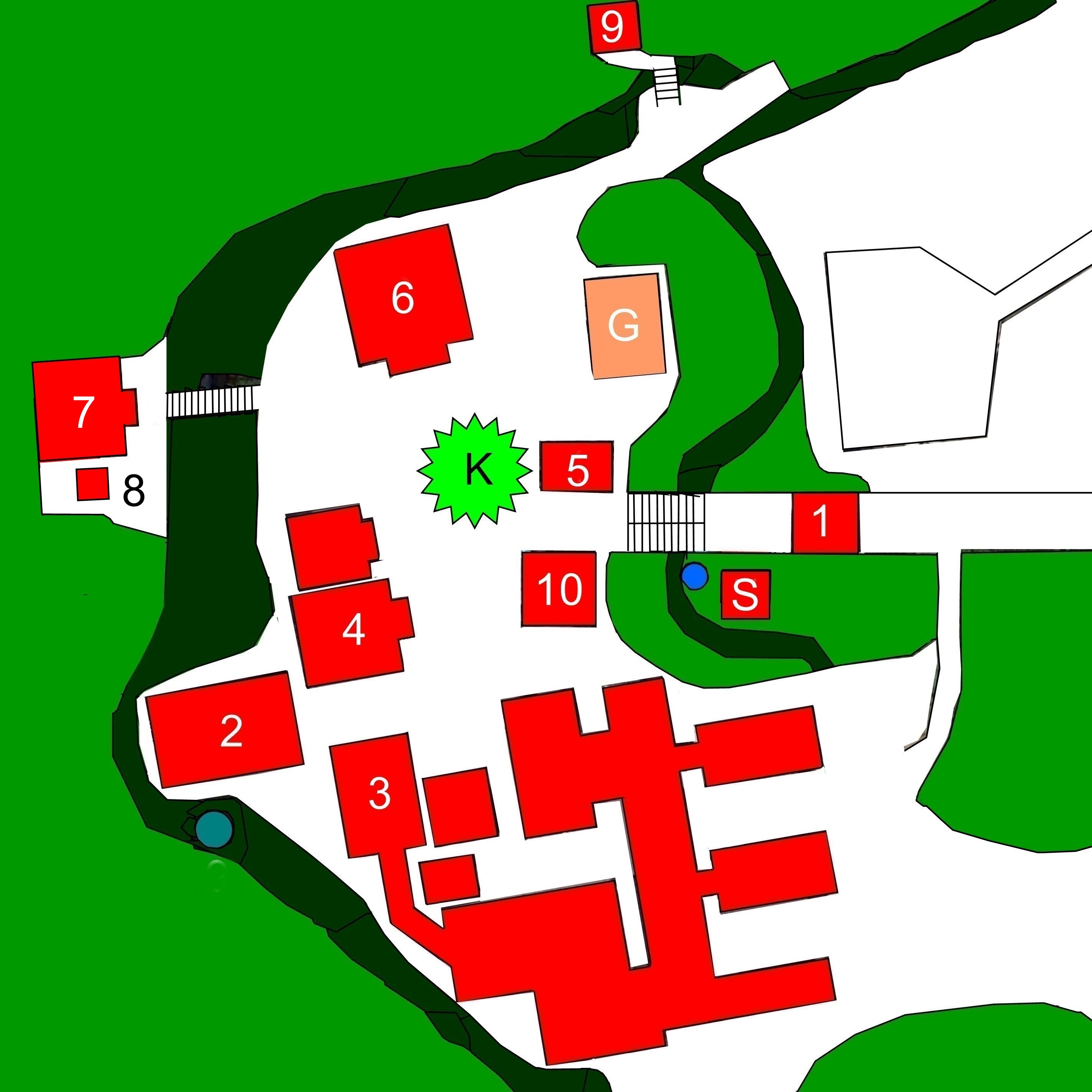 Layout of both, Kan'on-ji and Jinne-in at Kanon, Japan